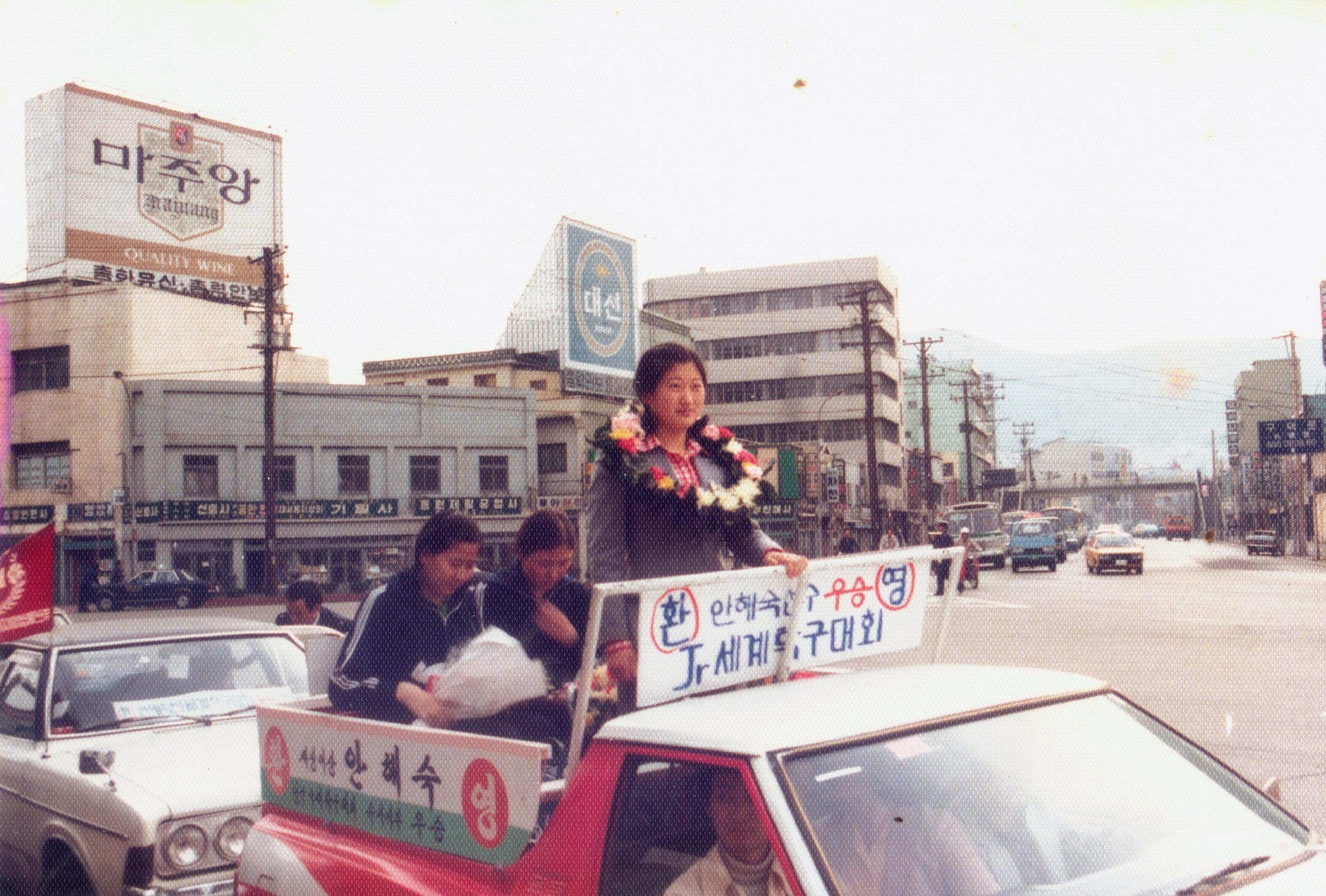 Table Tennis winner Ahn haesook